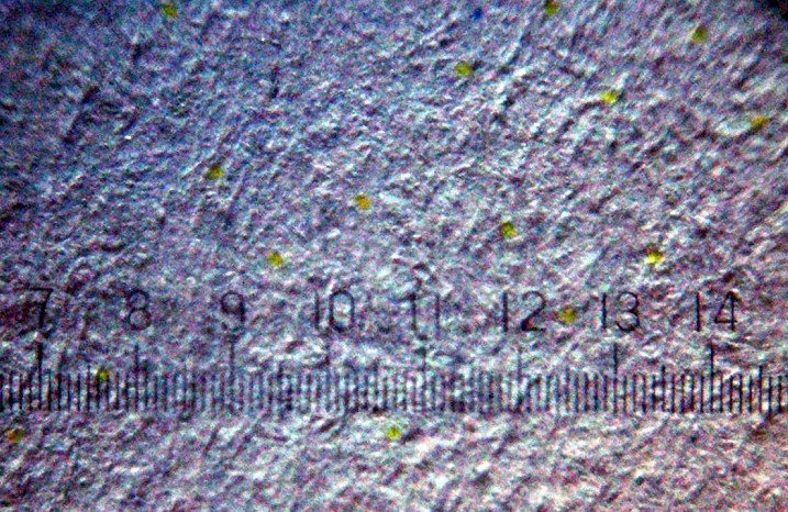 Yellow dots, which most color printers produce without knowledge of users. The dots encode printing date, type of printer and printer ID. The scale is 0.1 mm.